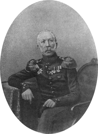 Vintulov, Aleksandr Dimitriyevic